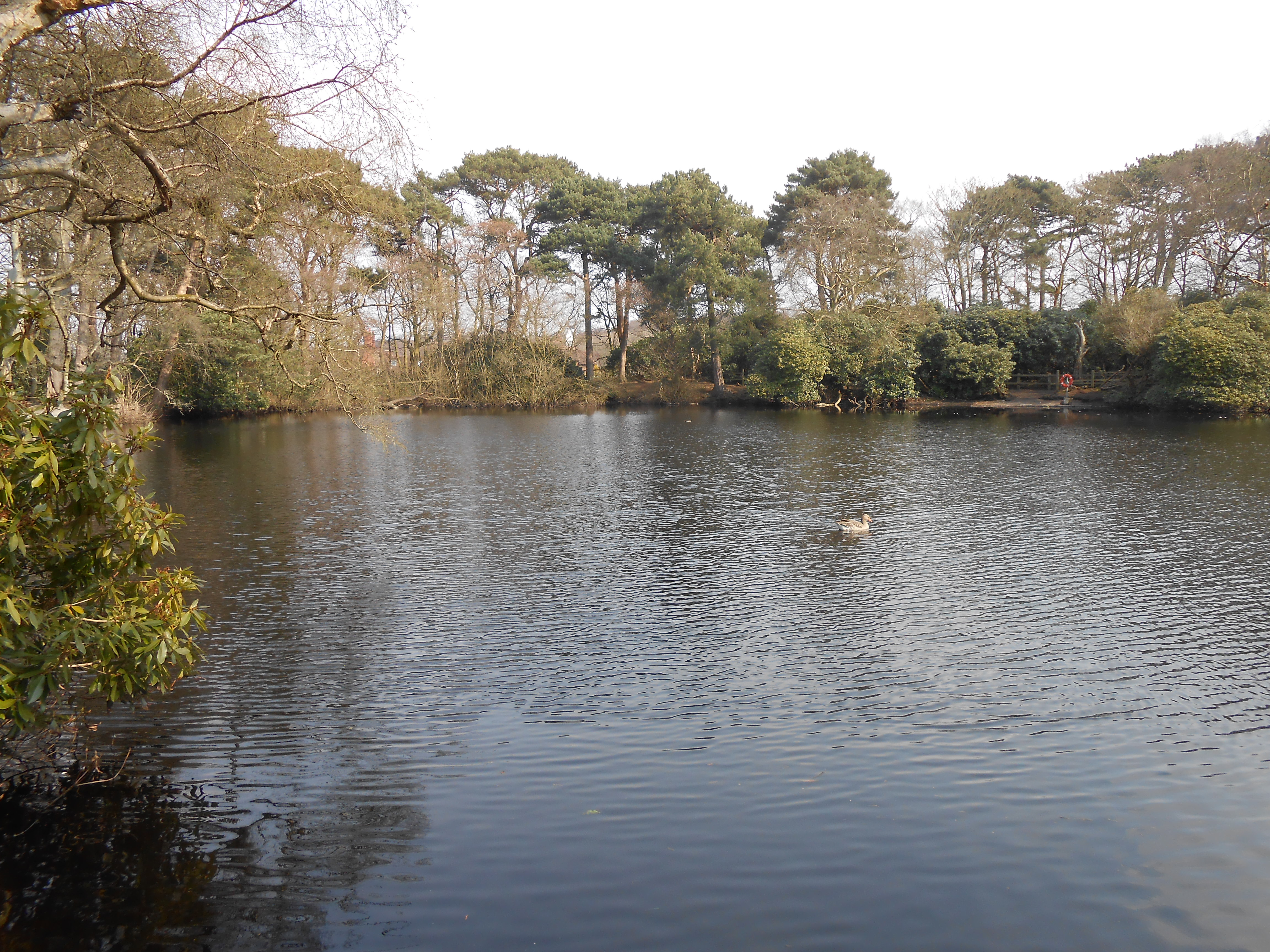 Photo taken at Roodee Mere in Royden Park, Wirral, Merseyside, England.